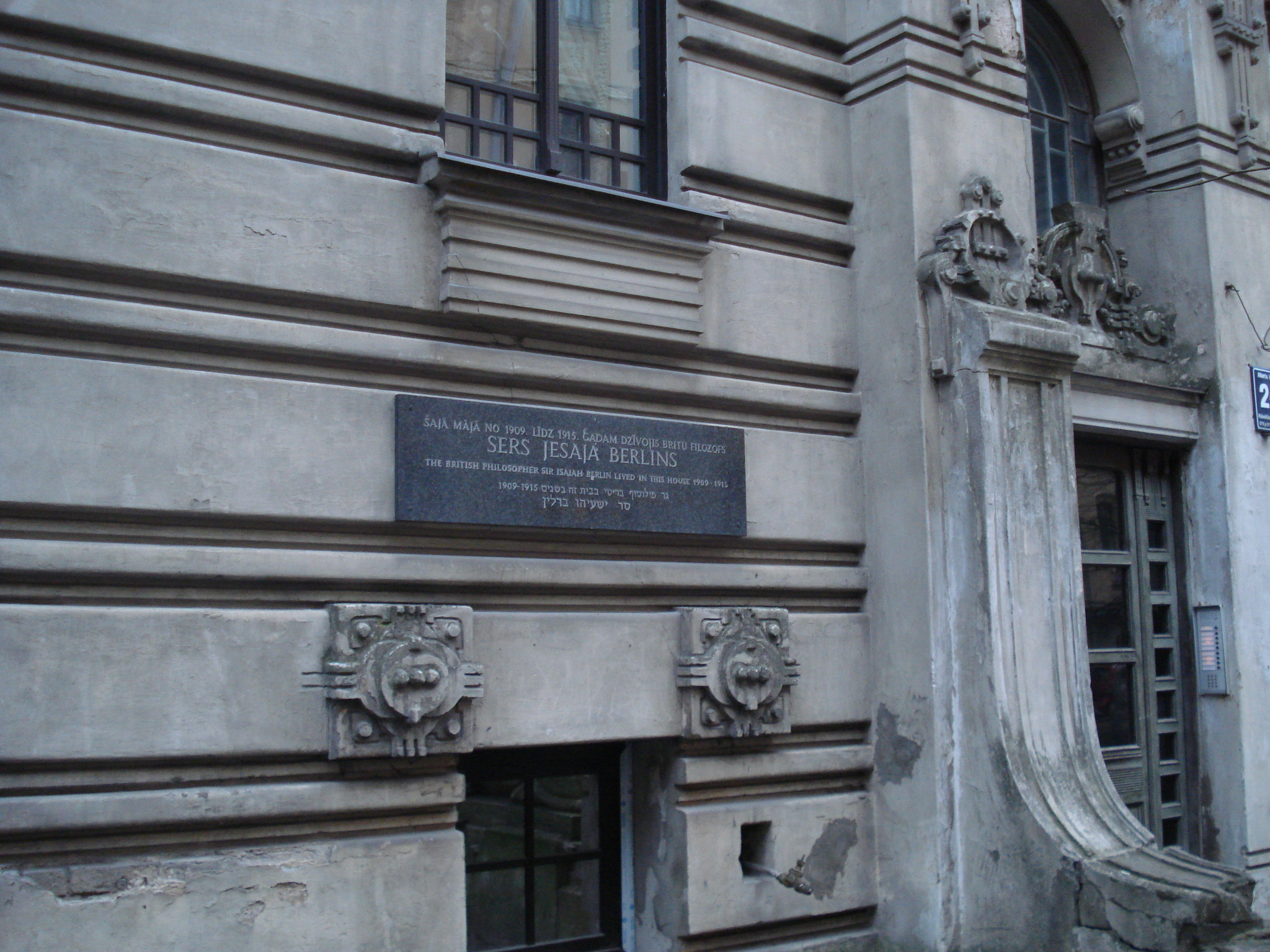 Plaque marking Isaiah Berlin's childhood home in Riga, Alberta ielā 2a